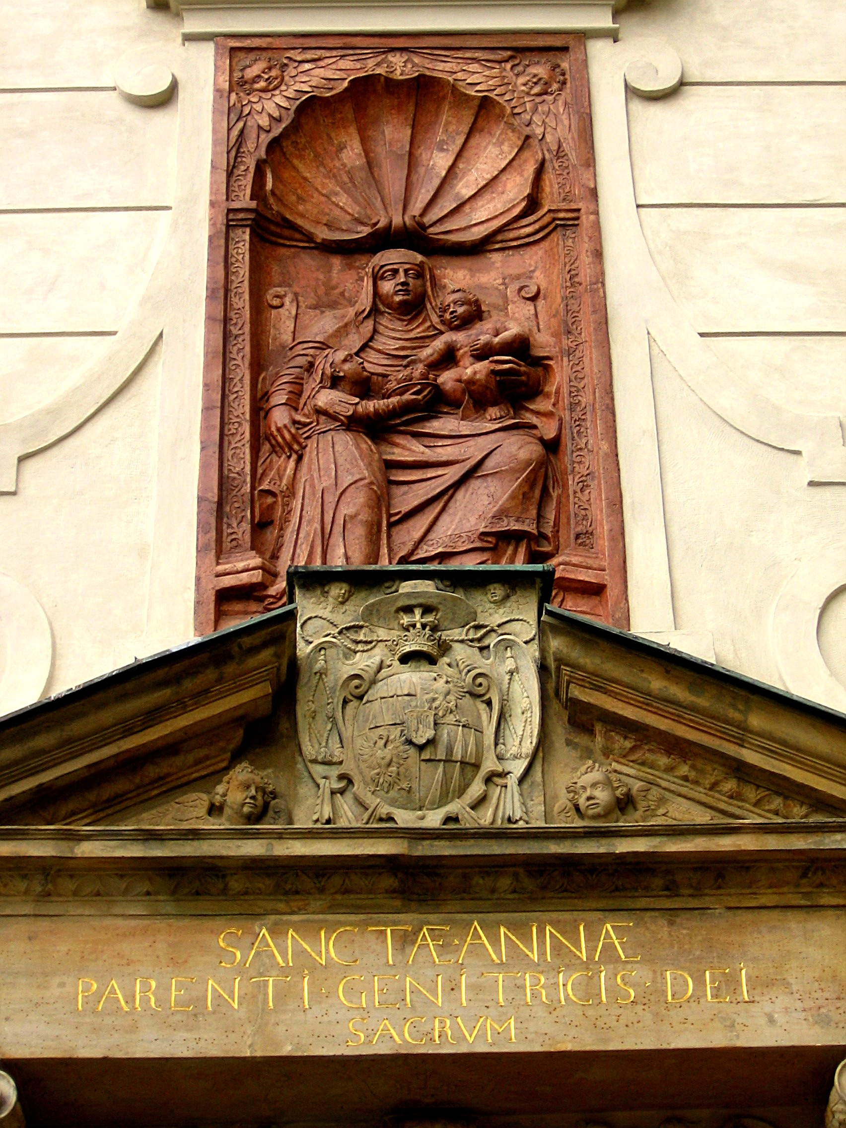 The Church of Saint Anne in Olomouc, the Czech Republic